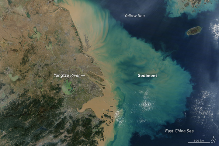 The coastal waters along China’s Jiangsu province are brown all year round due to the large volume of suspended sediment that flows out from the Yangtze, Yellow, and other rivers. But every winter, an even larger tongue of sediment emerges over the Great Yangtze Bank and extends hundreds of kilometers into the East China Sea. These winter plumes are prominent features in satellite imagery for a few months, before fading away in the spring. The Moderate Resolution Imaging Spectroradiometer (MODIS) on NASA’s Terra satellite captured this natural-color image of a plume over the Great Yangtze Bank on November 9, 2017. Remote sensing scientists find the feature perplexing and have advanced several theories about the causes. Some have argued that the plume is a product of currents moving sediment-laden river water eastward from the coast. Others have argued that it is caused by tides lifting up sediment that was deposited on the bottom of the Great Yangtze Bank hundreds of years ago. A new study in the Journal of Geophysical Research Oceans makes the case for the latter option. After gathering data on waves, sediments, and currents as observed in January 2016 (when the sediment plume was visible in satellite imagery), researchers developed a model that simulated conditions in this part of the ocean. They ran a series of computational experiments that showed that the energy of tides is strong enough to stir up bottom sediment from the Yangtze Bank. The tides do this all year round, the scientists think, but their modeling shows that the sediment can only rise up to the surface in the winter, when temperatures and salinities at the sea surface and bottom are roughly the same. In the summer, an influx of fresh water from the Yangtze, combined with heating of the surface layers of the sea, prevents vertical mixing and keeps the resuspended sediment in the depths.